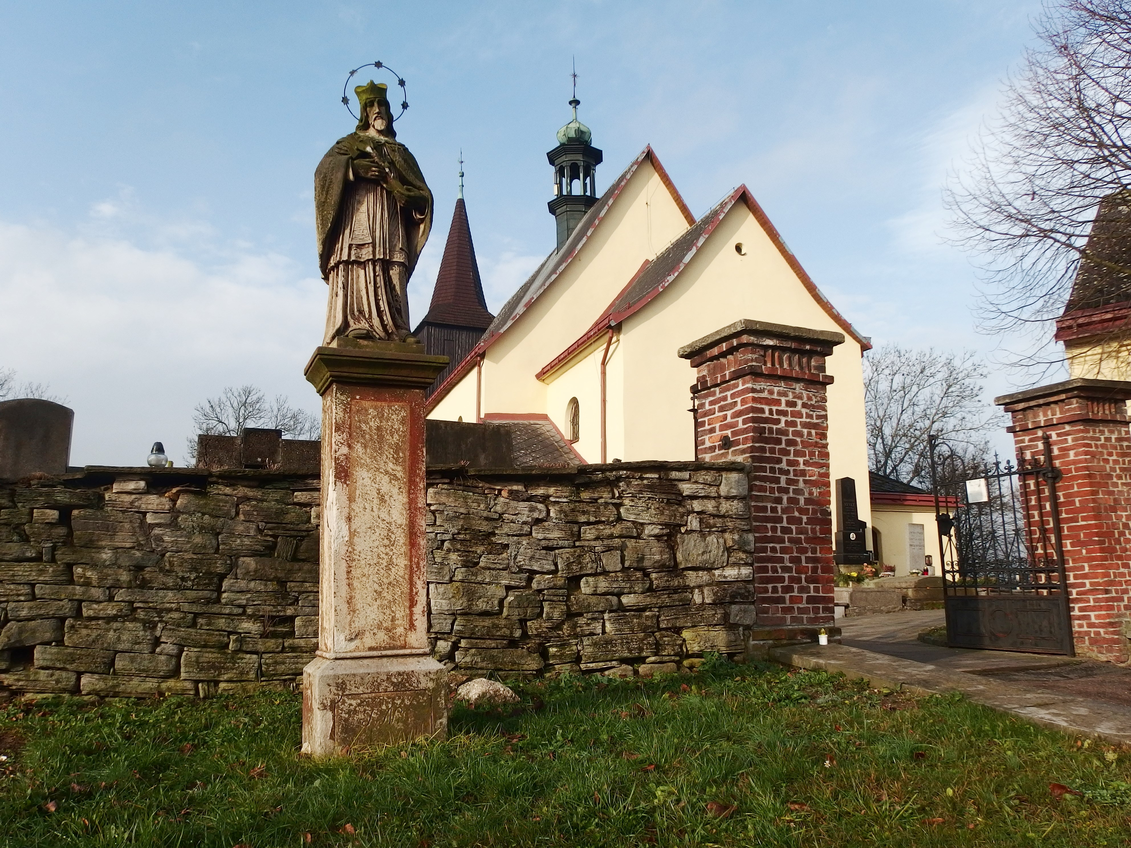 Rtyně v Podkrkonoší, Trutnov District, Czech Republic.